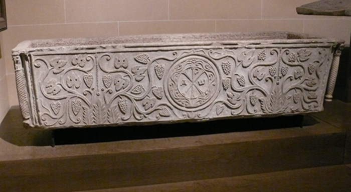 Drausin sarcophagus